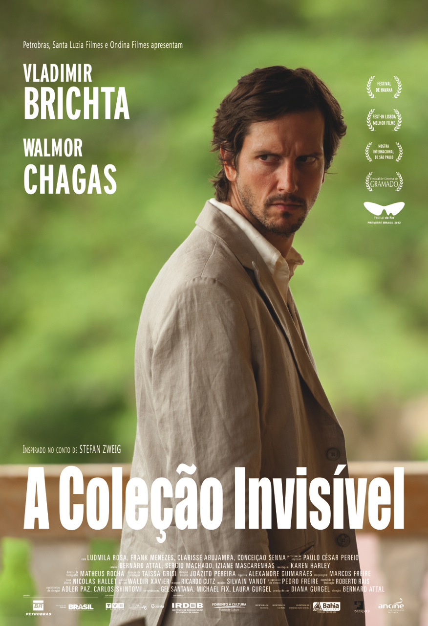 This is the official poster of the film "A Coleção Invisível", directed by Bernard Attal, produced by Santa Luzia Filmes